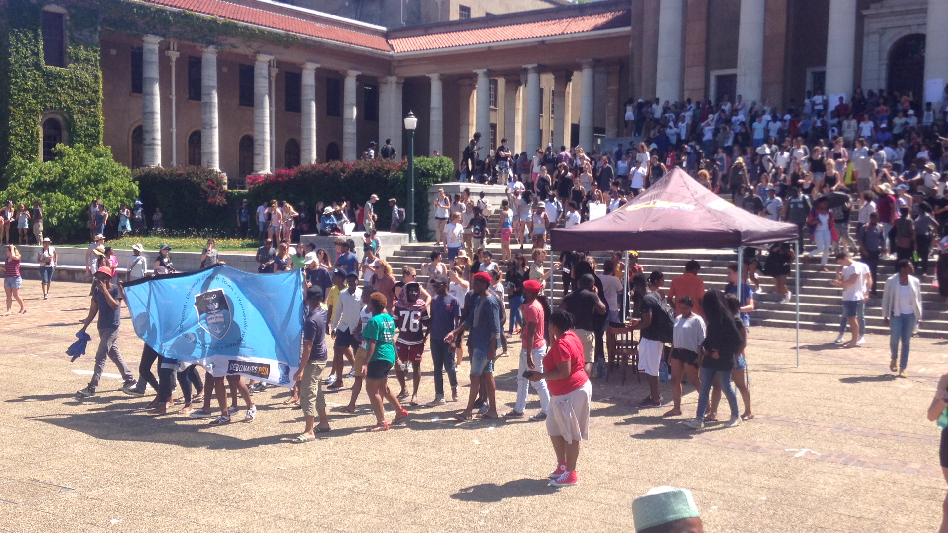 The second day of protests at the University of Cape Town calling for student fees and debts to be lowered. Was on of a number of such protests across South Africa on the day.